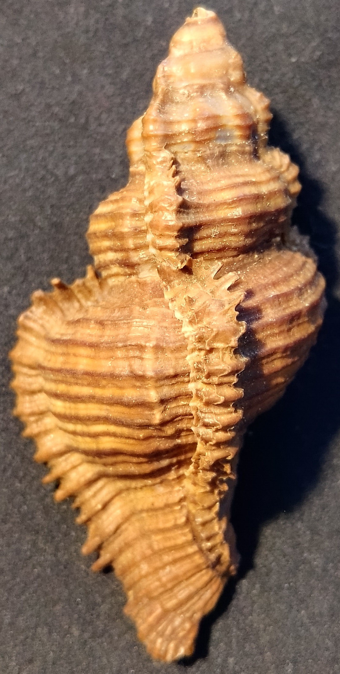 Chicoreus Capucinus Back